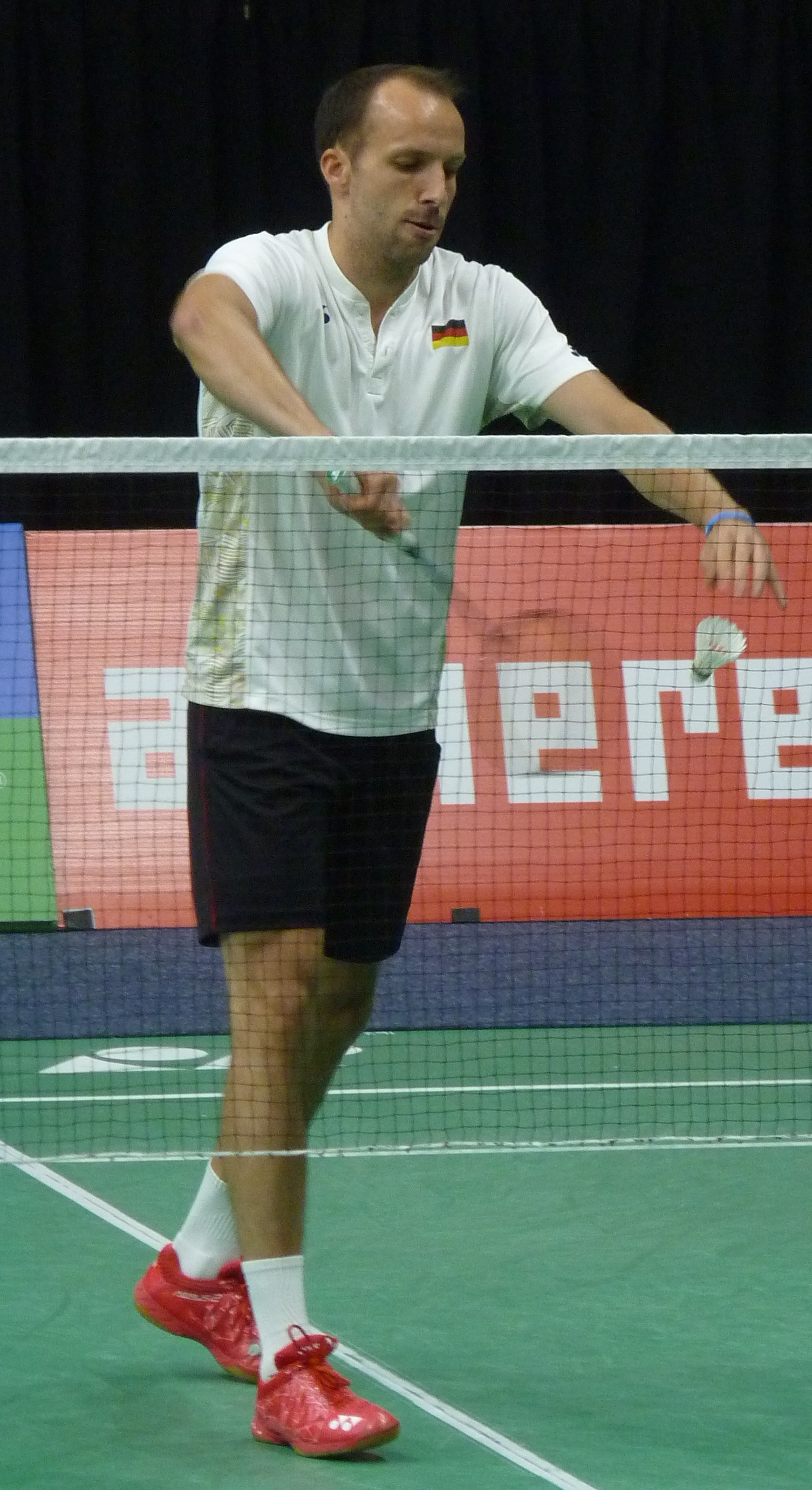 Alexanders Roovers (GERMANY)